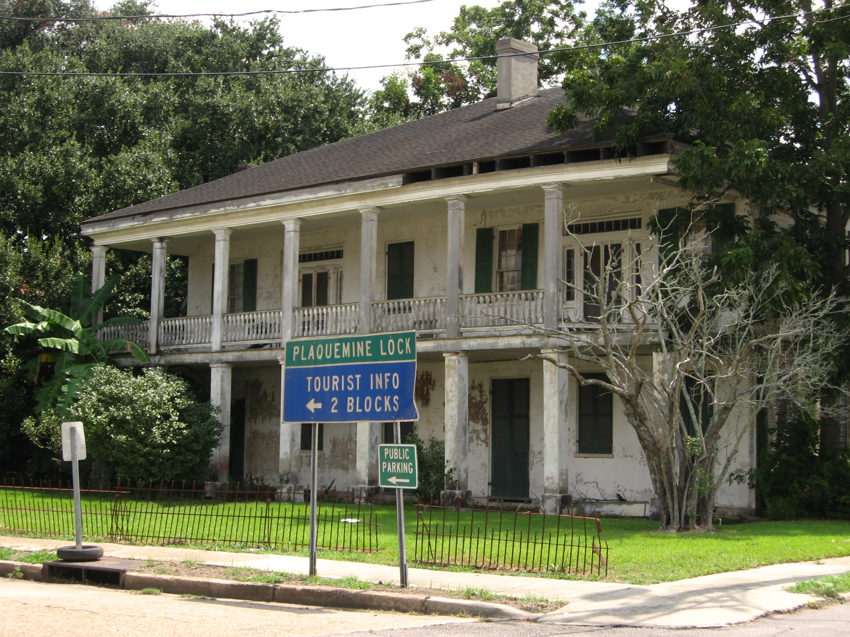 Plaquemine is a city in and the parish seat of Iberville Parish, Louisiana, United States. Old building.